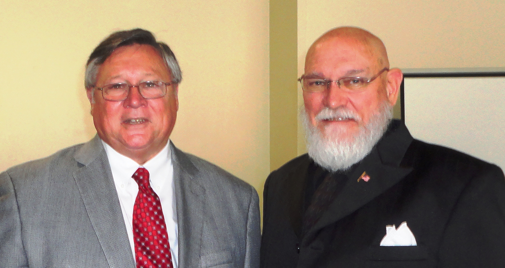 Dan Juneau (left) of the Louisiana Association of Business & Industry (LABI) with retired teacher Dr David Ramsey at the Hammond Chamber of Commerce luncheon on 2012-03-08